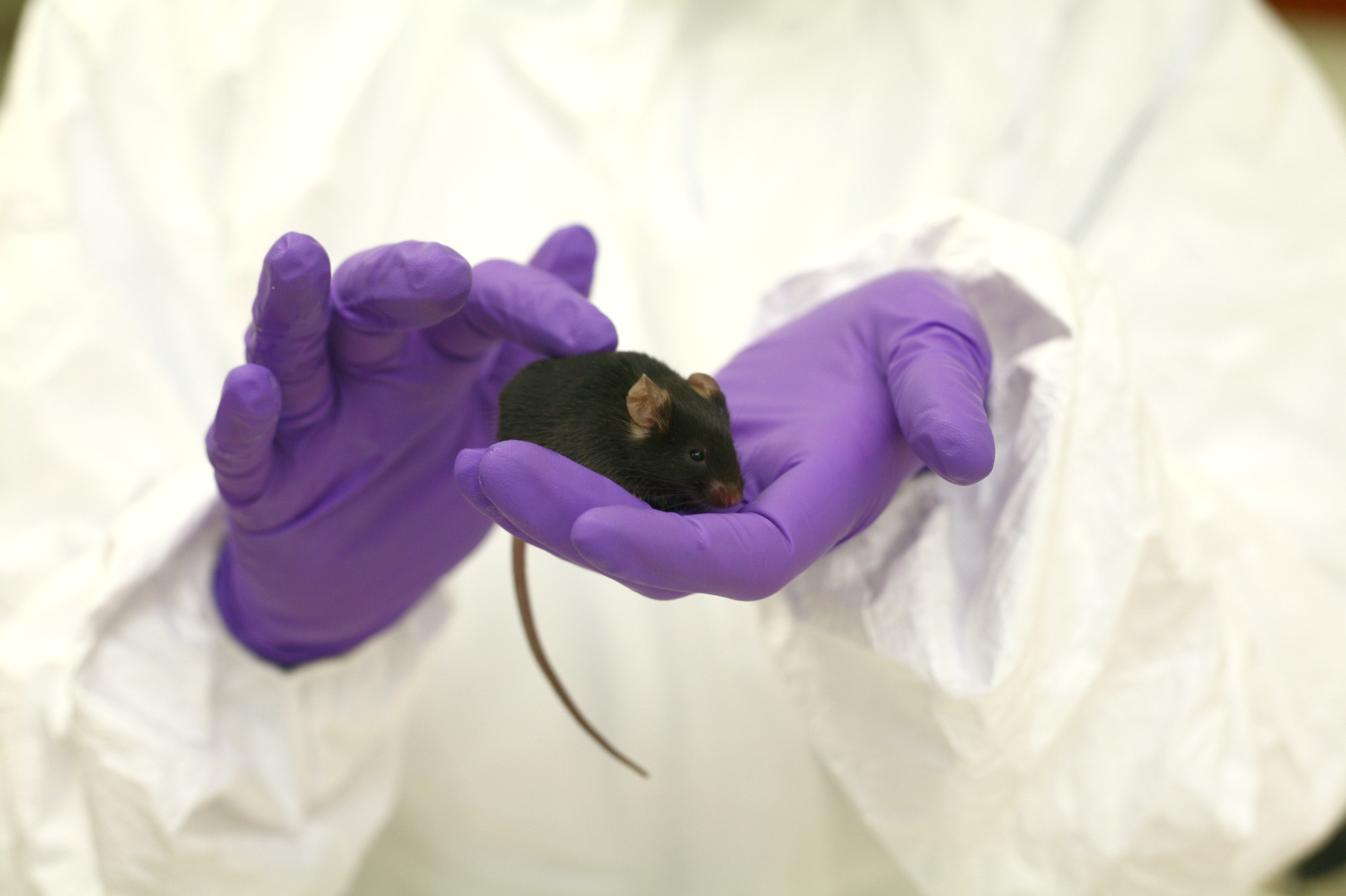 Black laboratory mouse in purple gloved hand